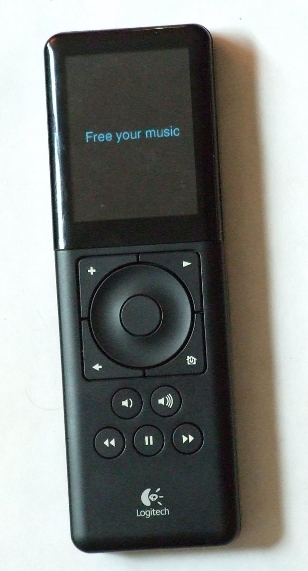 Logitech Squeezebox Controller. Norsk (bokmål): Logitech Squeezebox Controller.